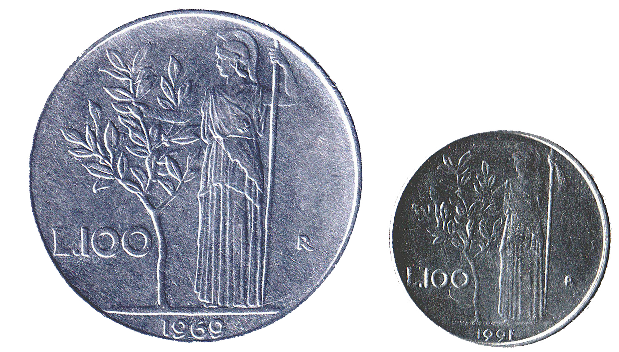 100 lire Minerva, large and small varieties